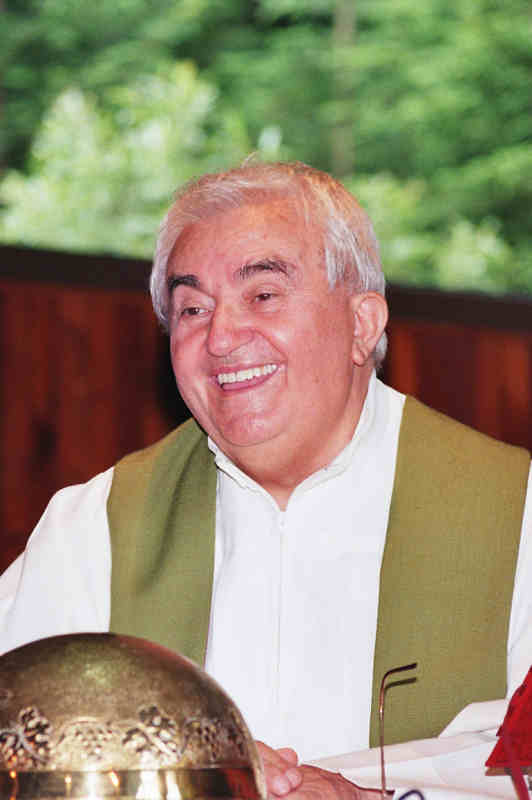 Oreste Benzi (1925–2007), photo by Riccardo Ghinelli